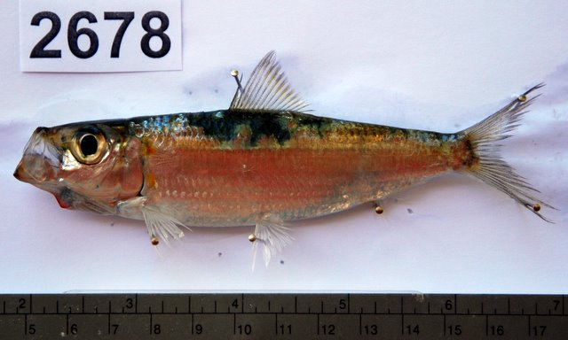 Herklotsichthys quadrimaculatus from off New Caledonia. Locality: Plage de l’Anse Vata, Nouméa, New Caledonia. Fork length 117 mm, Weight 21 grams. Date 2008/10/03